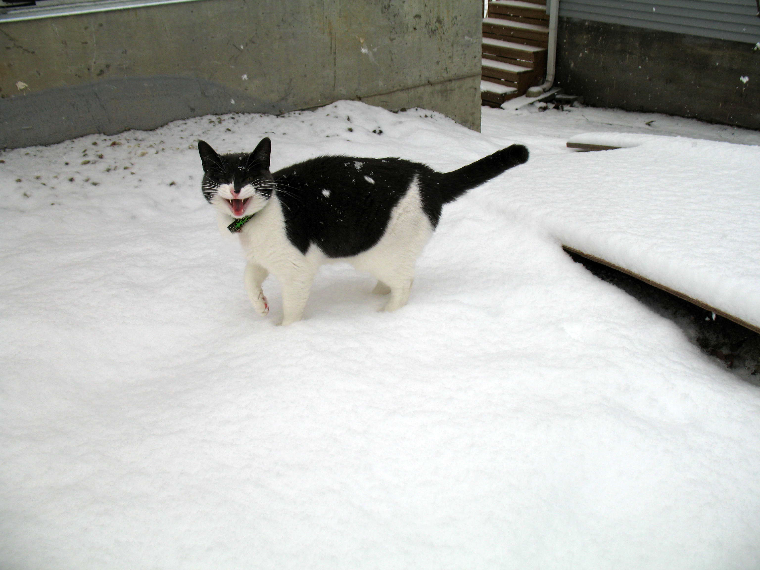 my cat has mixed feelings about the snow in seattle this morning! she loves to take me on walks with her. she basically leads me around! she's a character. i love snow.